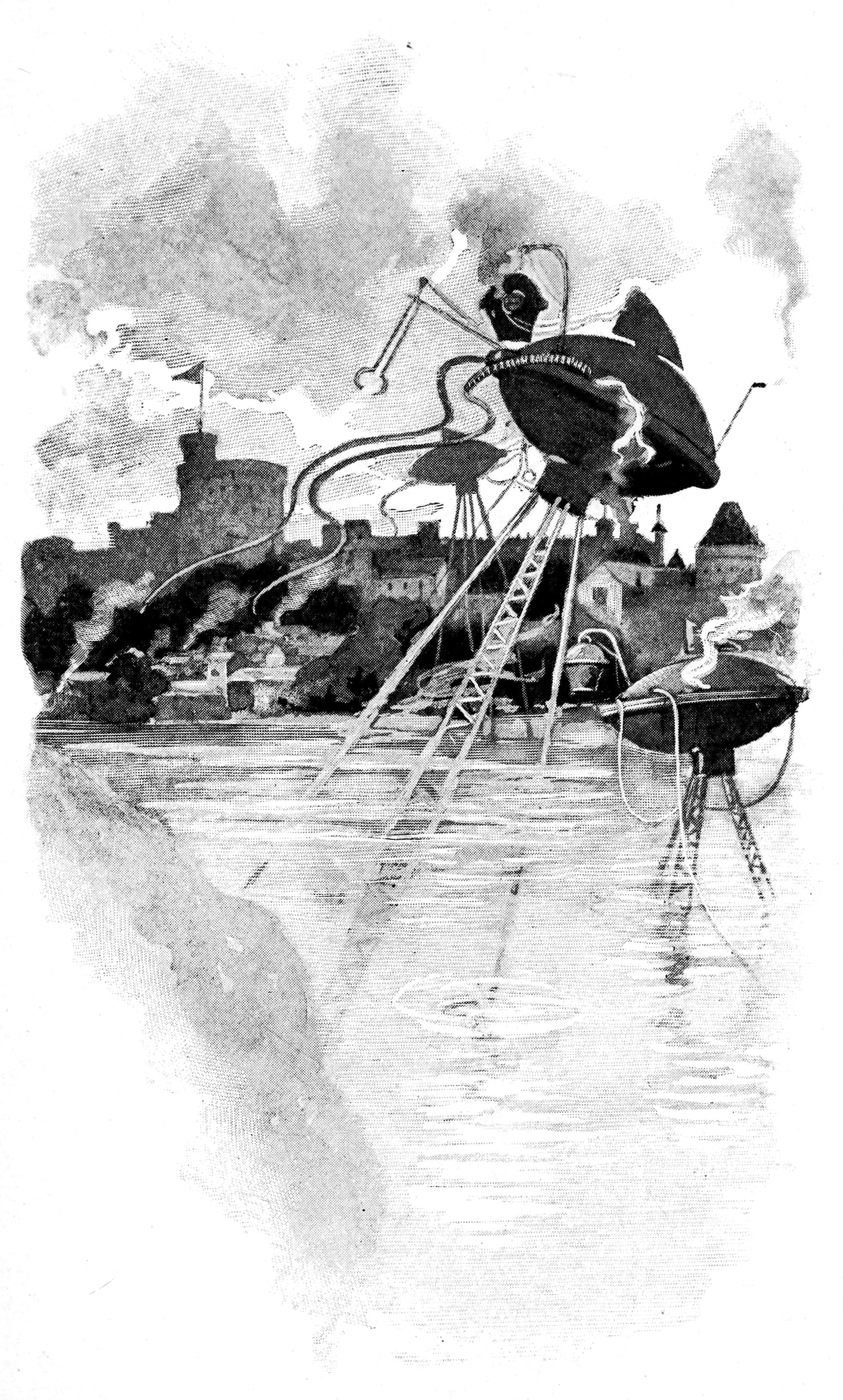 pg 141 of War of the Worlds.